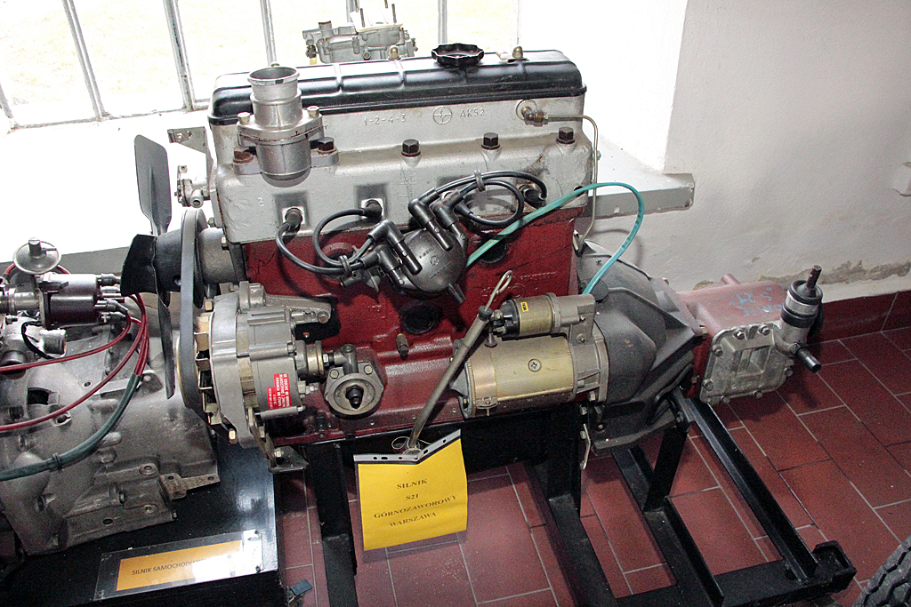 This photo was taken during Automotive Wikiexpedition 2016 set up by Wikimedia Polska Association. You can see all photographs in category Wikiekspedycja motoryzacyjna 2016. English | Polski | +/−